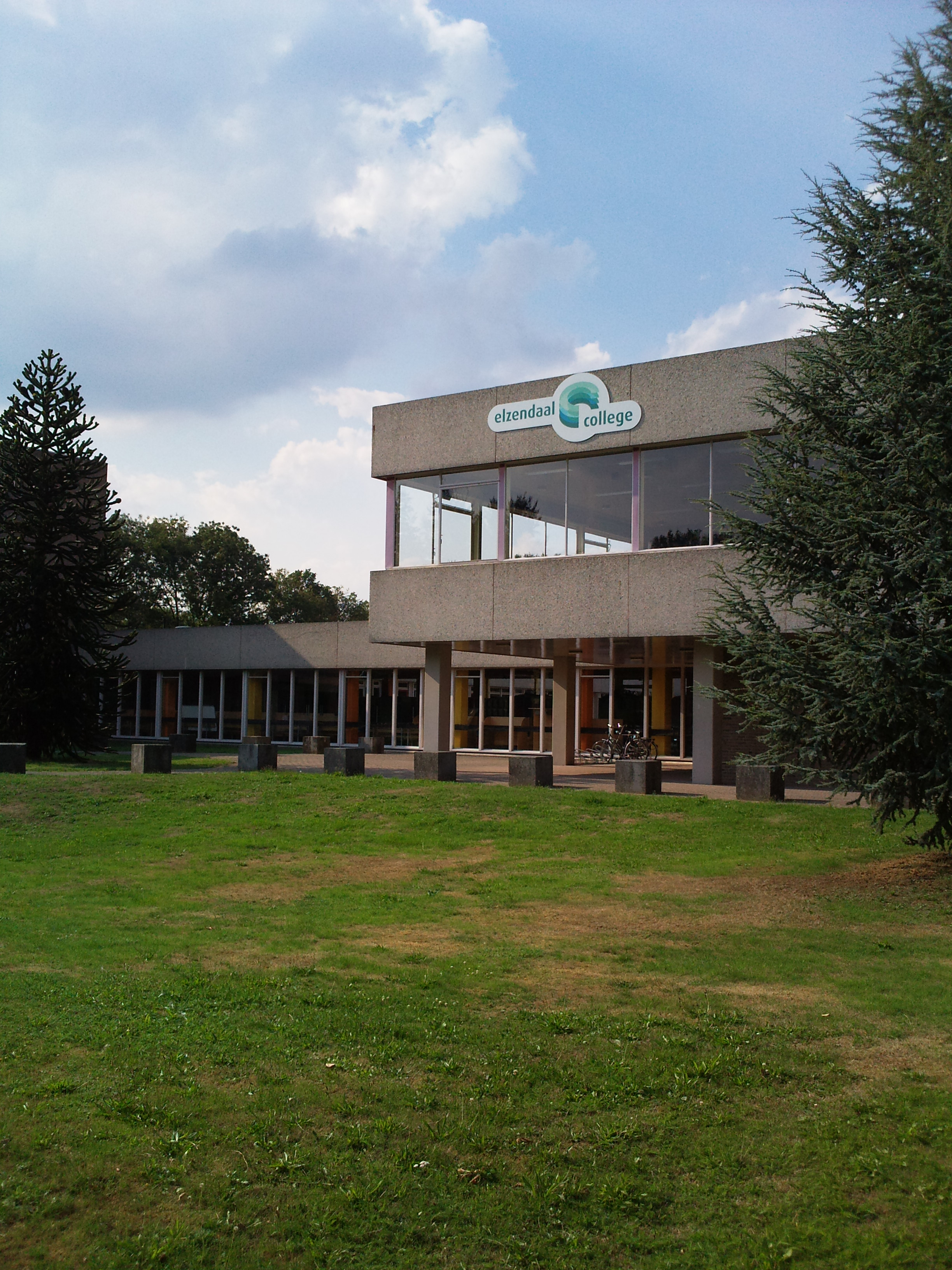 Elzendaalcollege Gennep NL